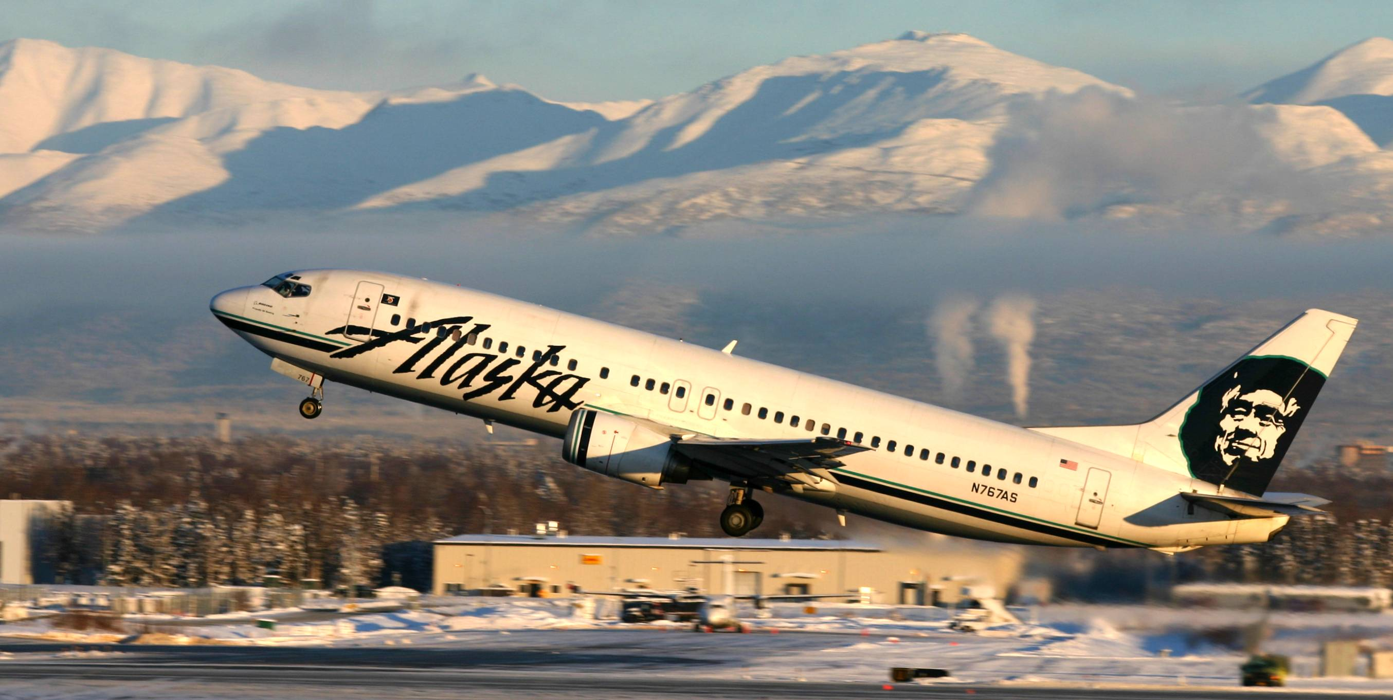 Alaska Airlines, Boeing 737-490, N767AS. Taken from a view point near Anchorage International Airport, Alaska in January 2008.